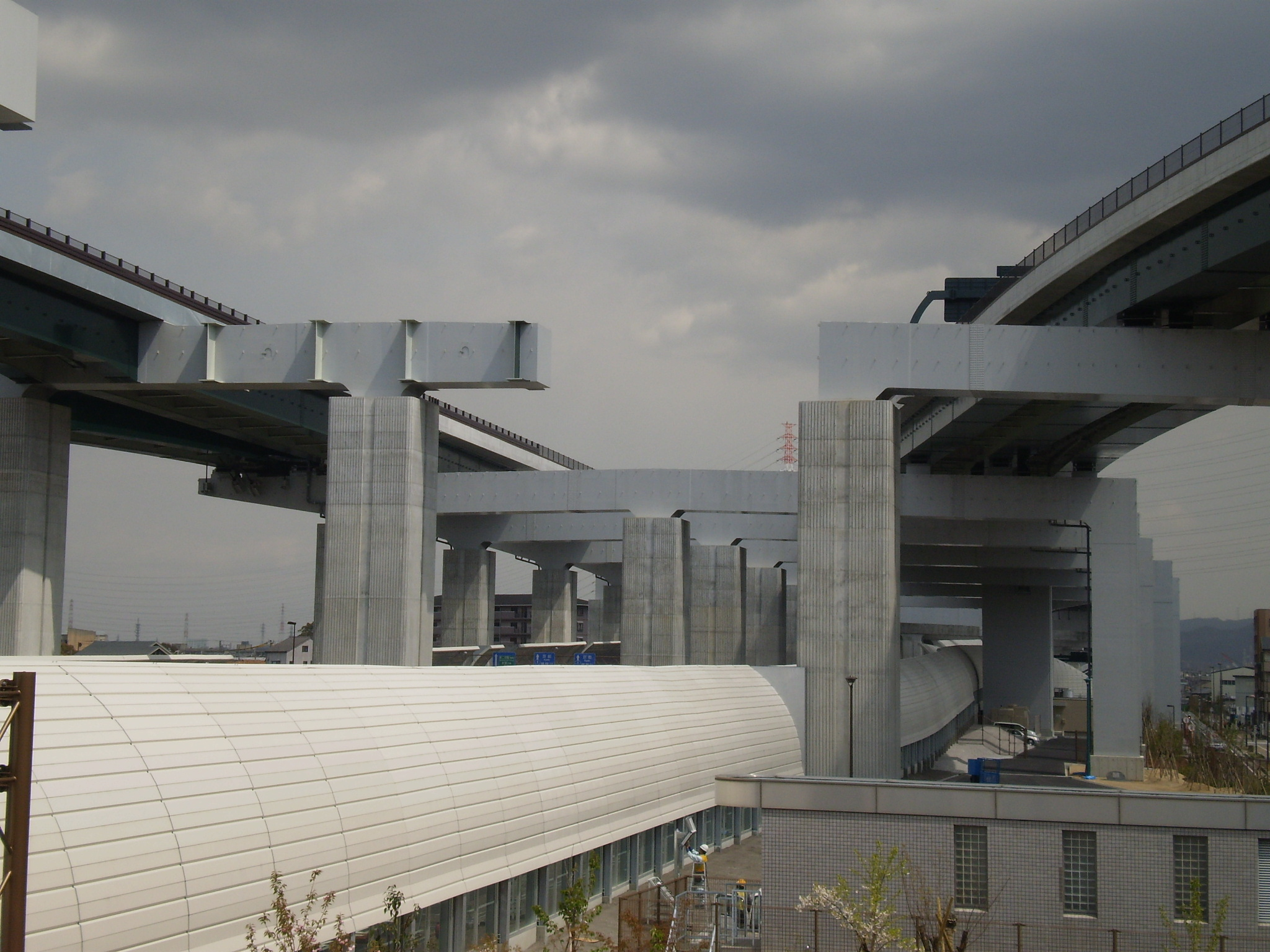 Kadoma Junction. I took this image at Mitsushima Kadoma City Osaka Pref., Japan.